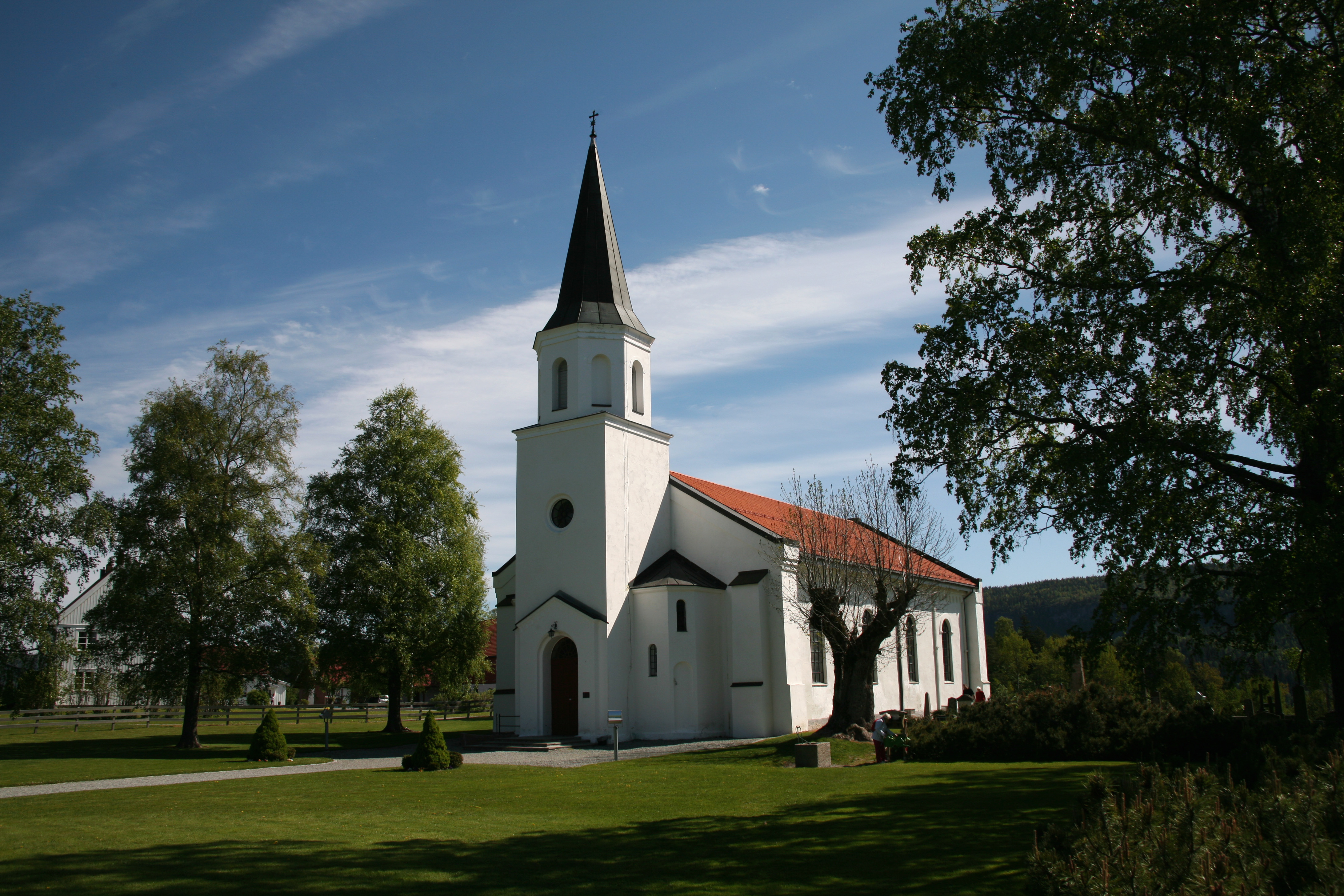 Picture of Sylling Church (Buskerud - Norway)